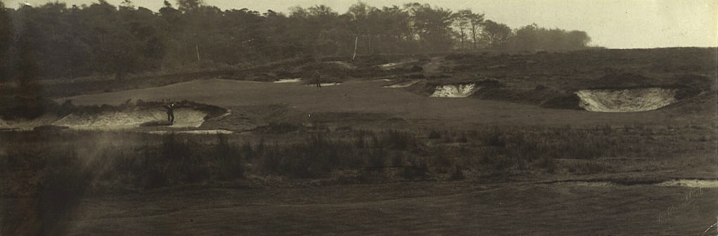 The 8th green at Moortown (170 yards), designed by Alister MacKenzie, known today as the Gibraltar hole